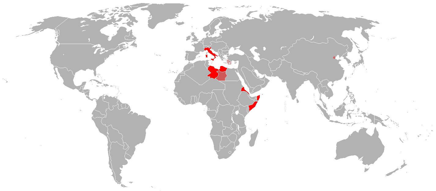 Map of the Italian Empire in 1914. Of note, at this time, the Vatican was not independent from Italy (this occurred in 1929). The future colony of Libya is correctly shown in 1914 as the two separate Italian colonies it was at the time, Tripolitania and Fezzan. Cyrenaica is shown as a disputed area as both the United Kingdom and Italy laid claim to it. Minuscule Italian possessions are surrounded by red circling, including the small Italian holding of 46 hectares in Tianjin, a Chinese trading city which had numerous European territorial holdings.